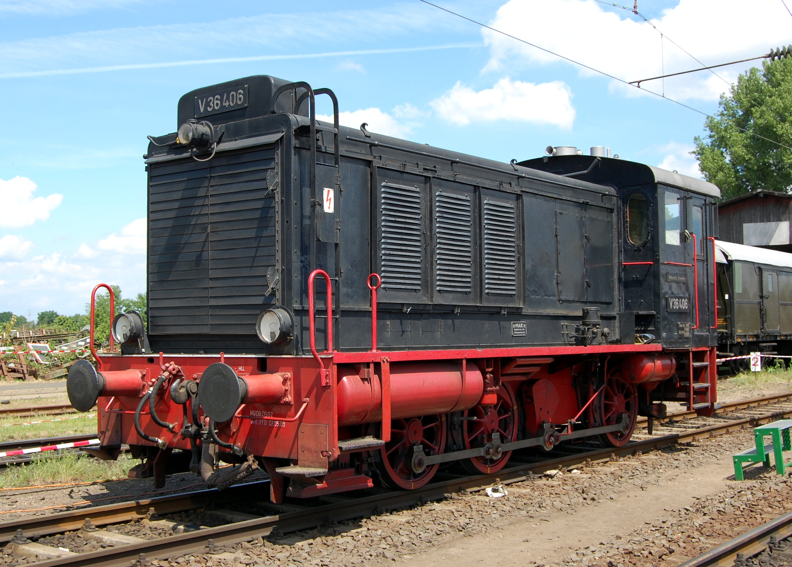 Diesel locomotive german class V 36